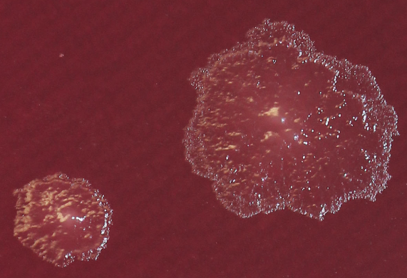 Turicibacter sp. H121 colony